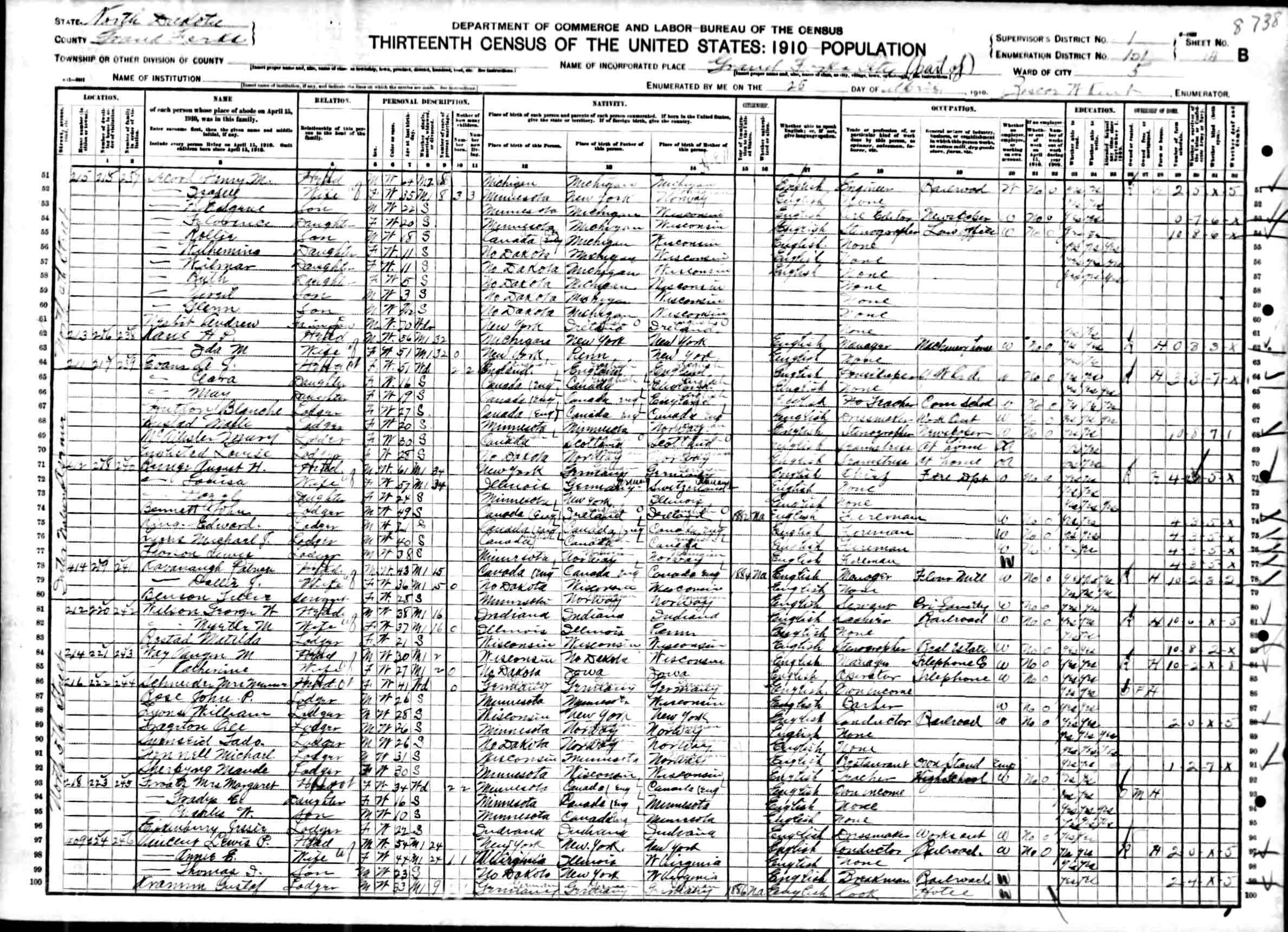 1910 United States Census about August H. Runge Name: August H Runge Age in 1910: 61 Estimated birth year: abt 1849 Birthplace: New York Relation to Head of House: Head Father's Birth Place: Germany Mother's Birth Place: Germany Spouse's name: Louisa Home in 1910: Grand Forks Ward 5, Grand Forks, North Dakota Marital Status: Married Race: White Gender: Male Neighbors: View others on page Household Members: Name Age August H Runge 61 Louisa Runge 57 Hazel Runge 24 John Bennett 49 Edward King 21 Michael J Lyons 40 Lewis Thorson 38 Scanned from the original Census Bureau document.